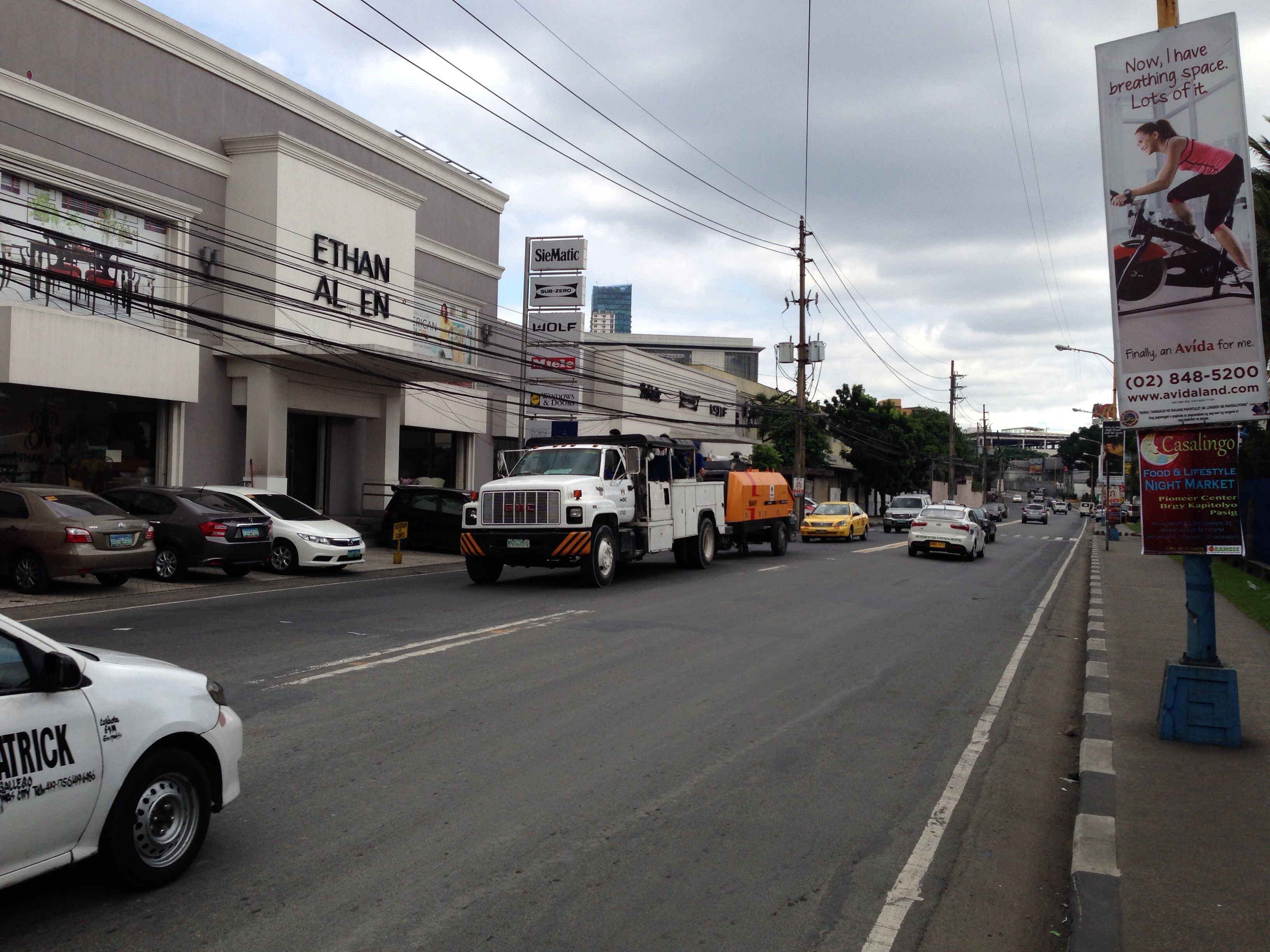 Pioneer Street, Pasig, Manila